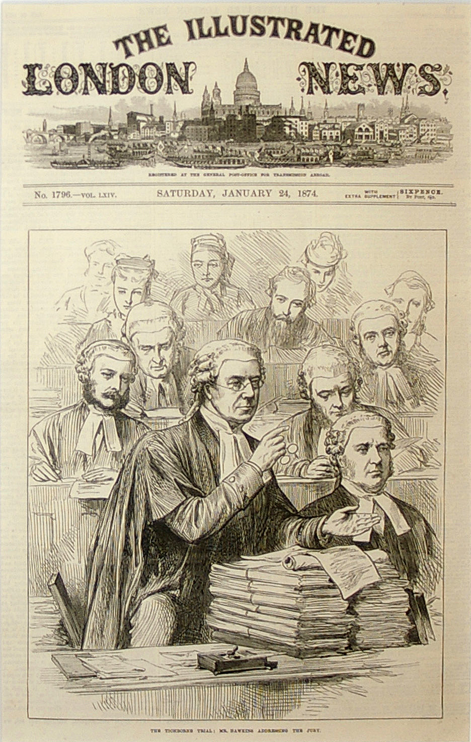 The Illustrated London News - Tichborne Case (1874).